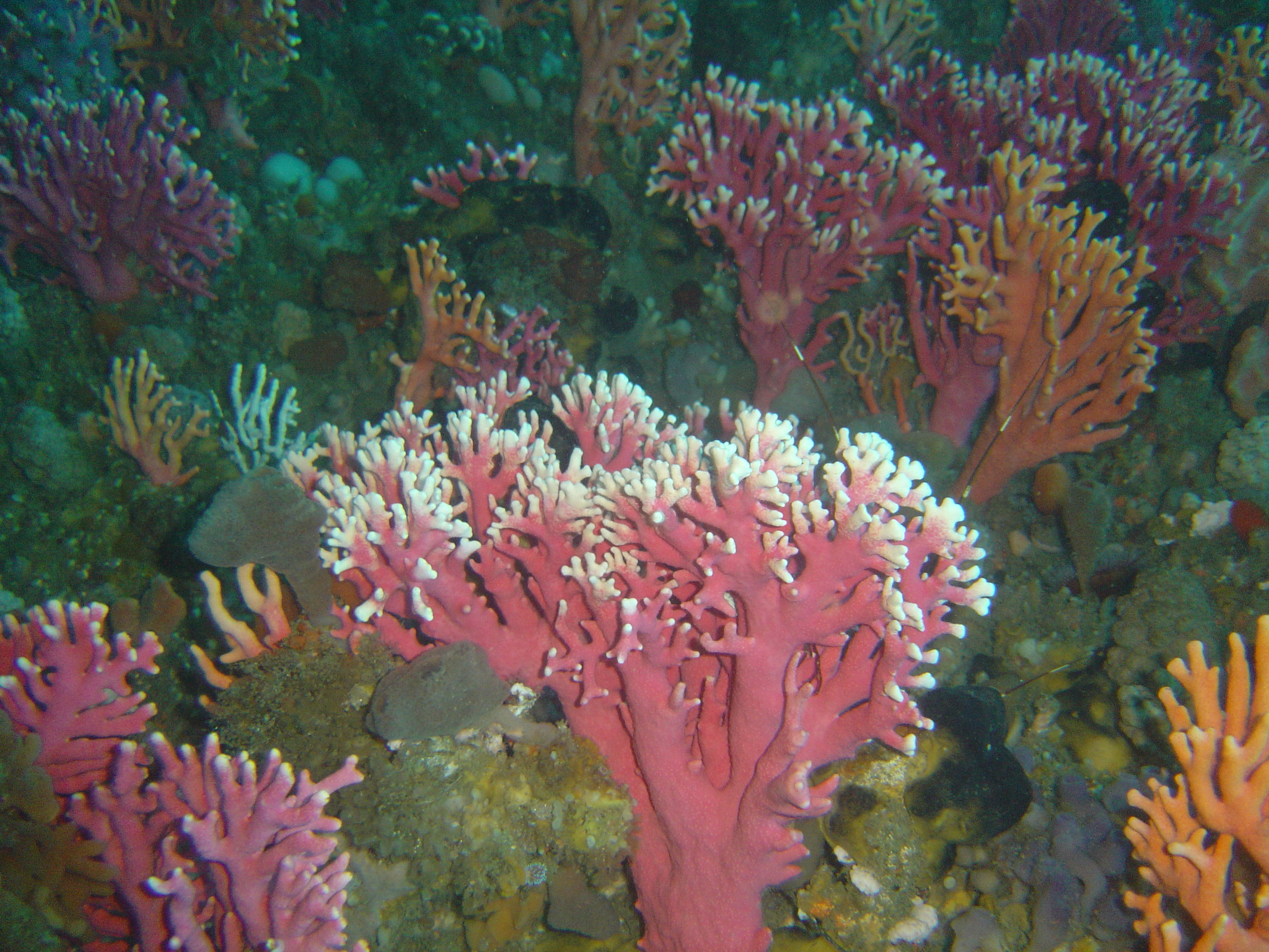 Noble corals, Oudekraal, Cape Peninsula.